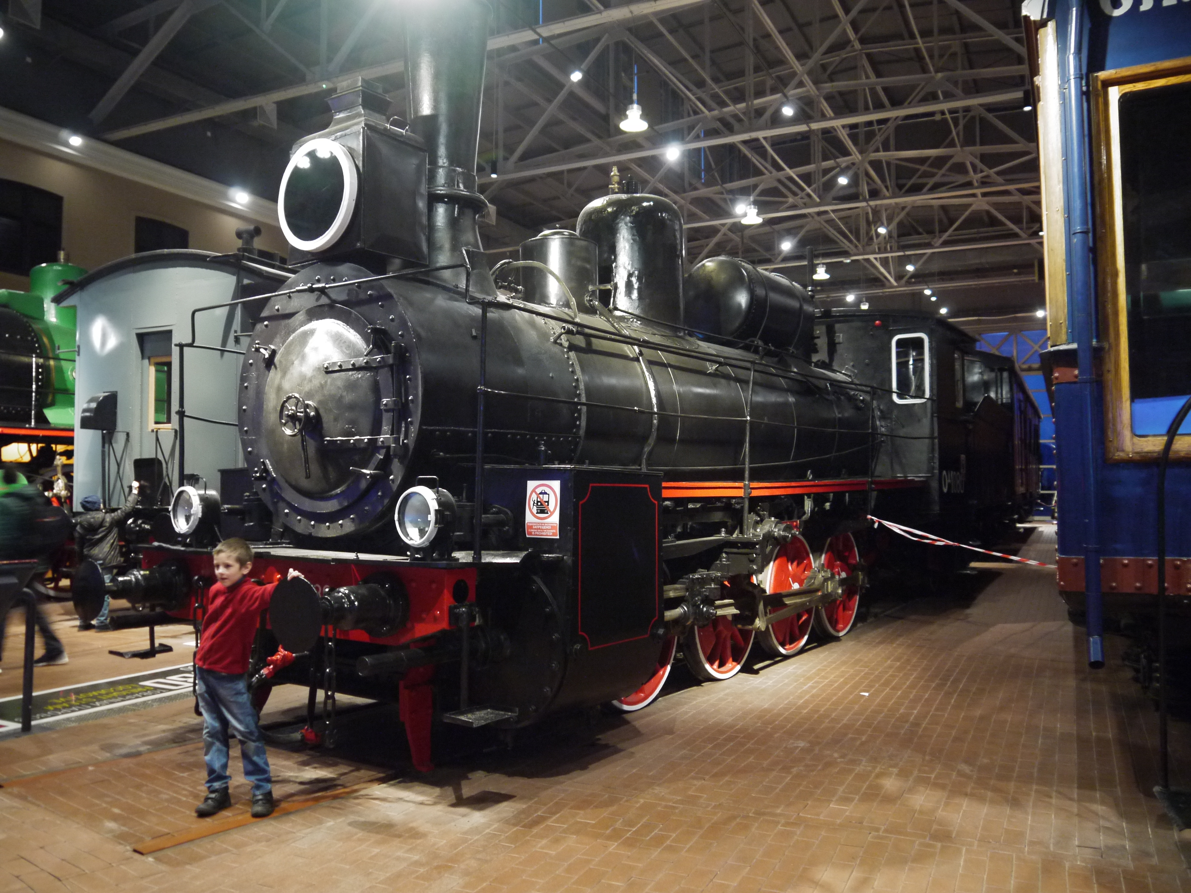 Od-1080 Nineteenth Century Freight locomotive at the Russian Railway Museum, adjacent Baltiysky Railway station, Saint Petersburg